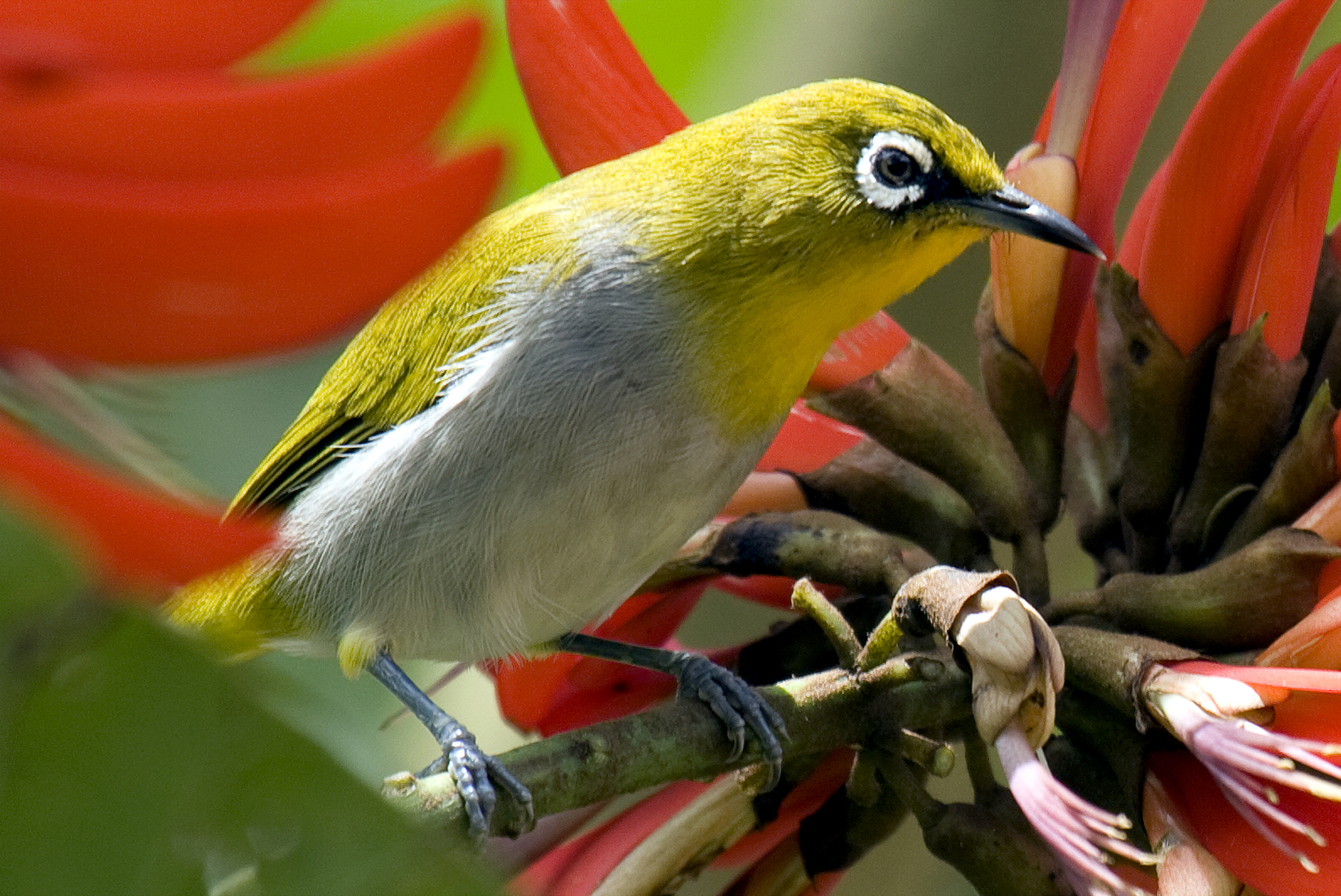 Oriental White-eye (Zosterops palpebrosus)